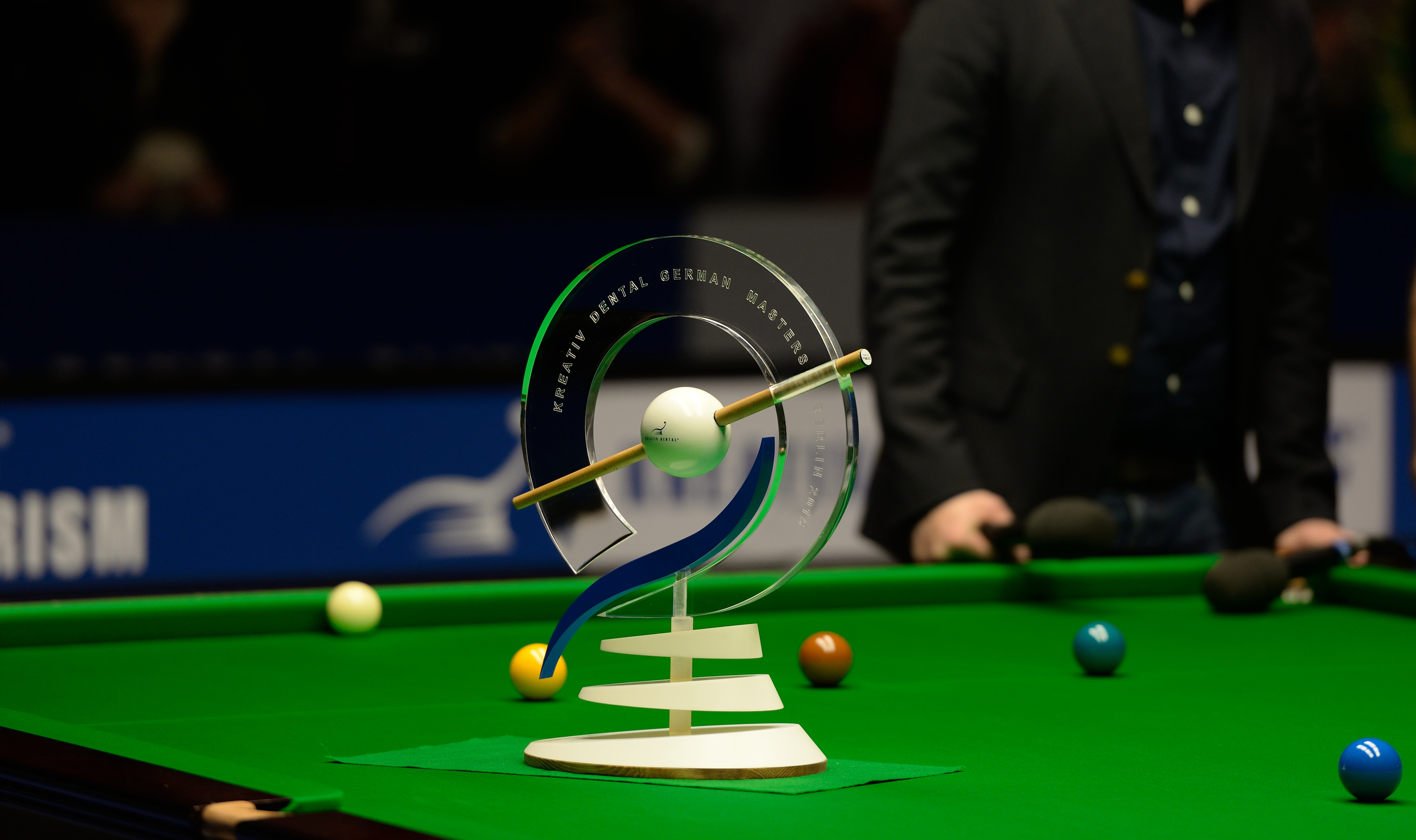 Picture taken in Berlin during the Snooker German Masters in 2015. Shaun Murphy.